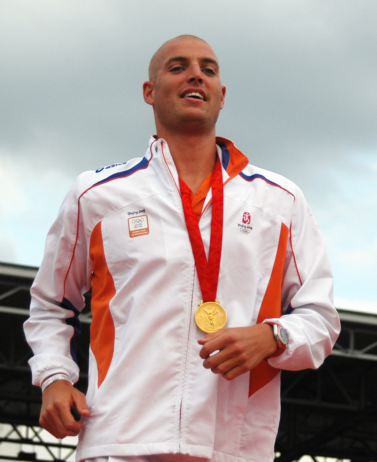 Maarten van der Weijden at the Olympic welcome in the Olympic Stadium in Amsterdam, the Netherlands.